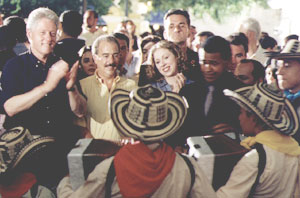 Bill Clinton with daughter Chelsea in Cartagena, Colombia, August 30, 2000.